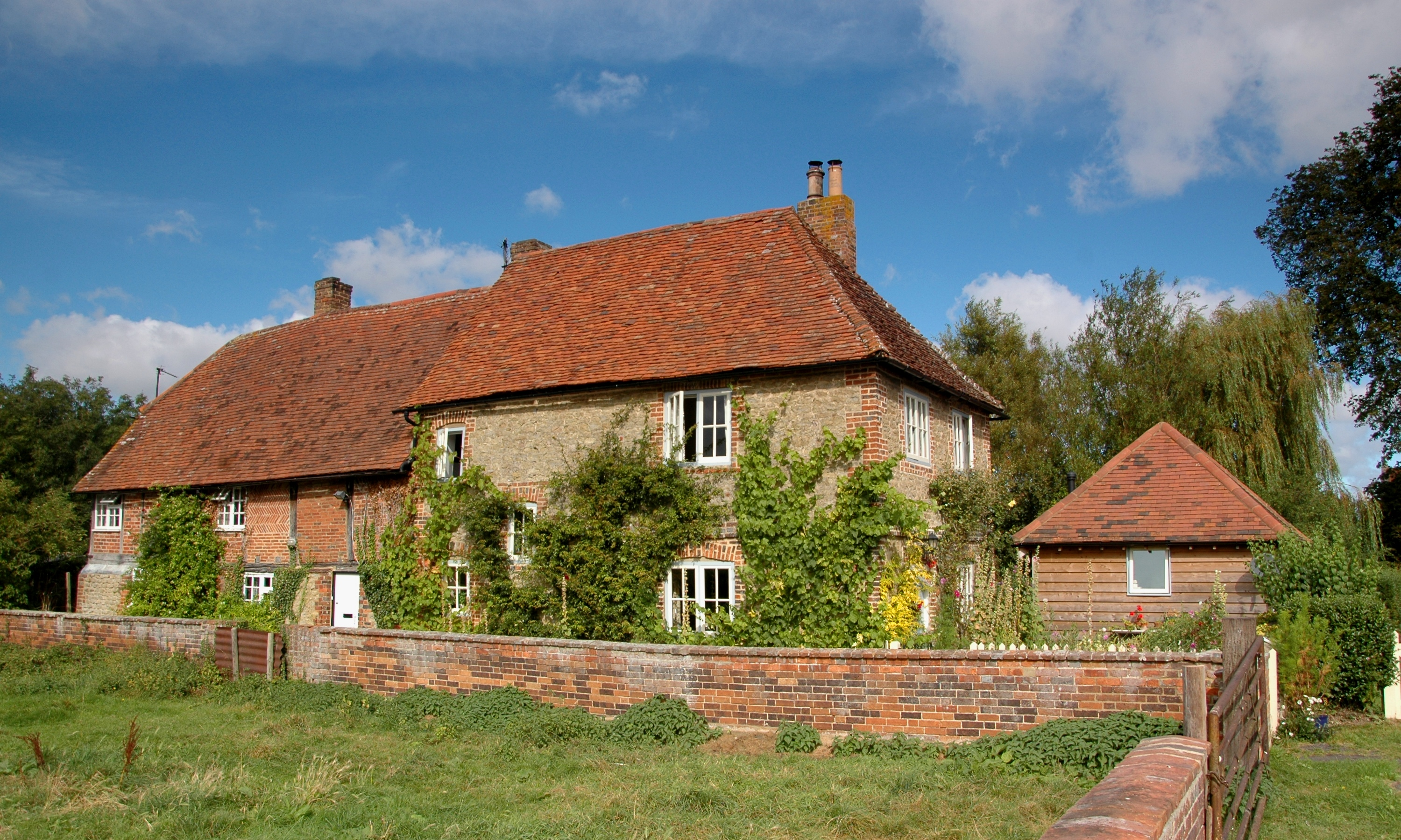 Sydenham, South Oxfordshire: 17th century (left) & 18th century (right) cottages. The 17th century cottage is timber-framed with brick nogging; the 18th century cottage is coursed rubblestone.